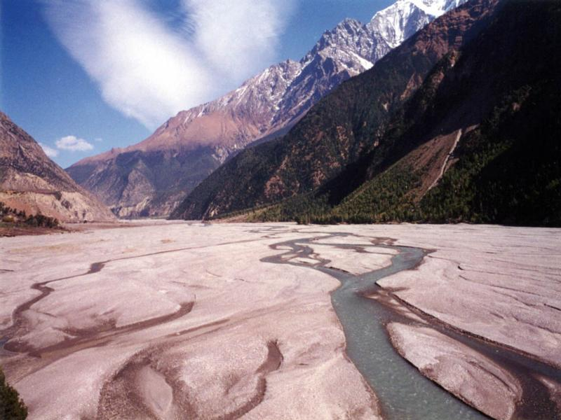 picture taken by ayranne wass during a trip to nepal